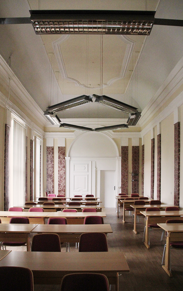 Gotha, Palace of Friedrichsthal, hall of mirrors